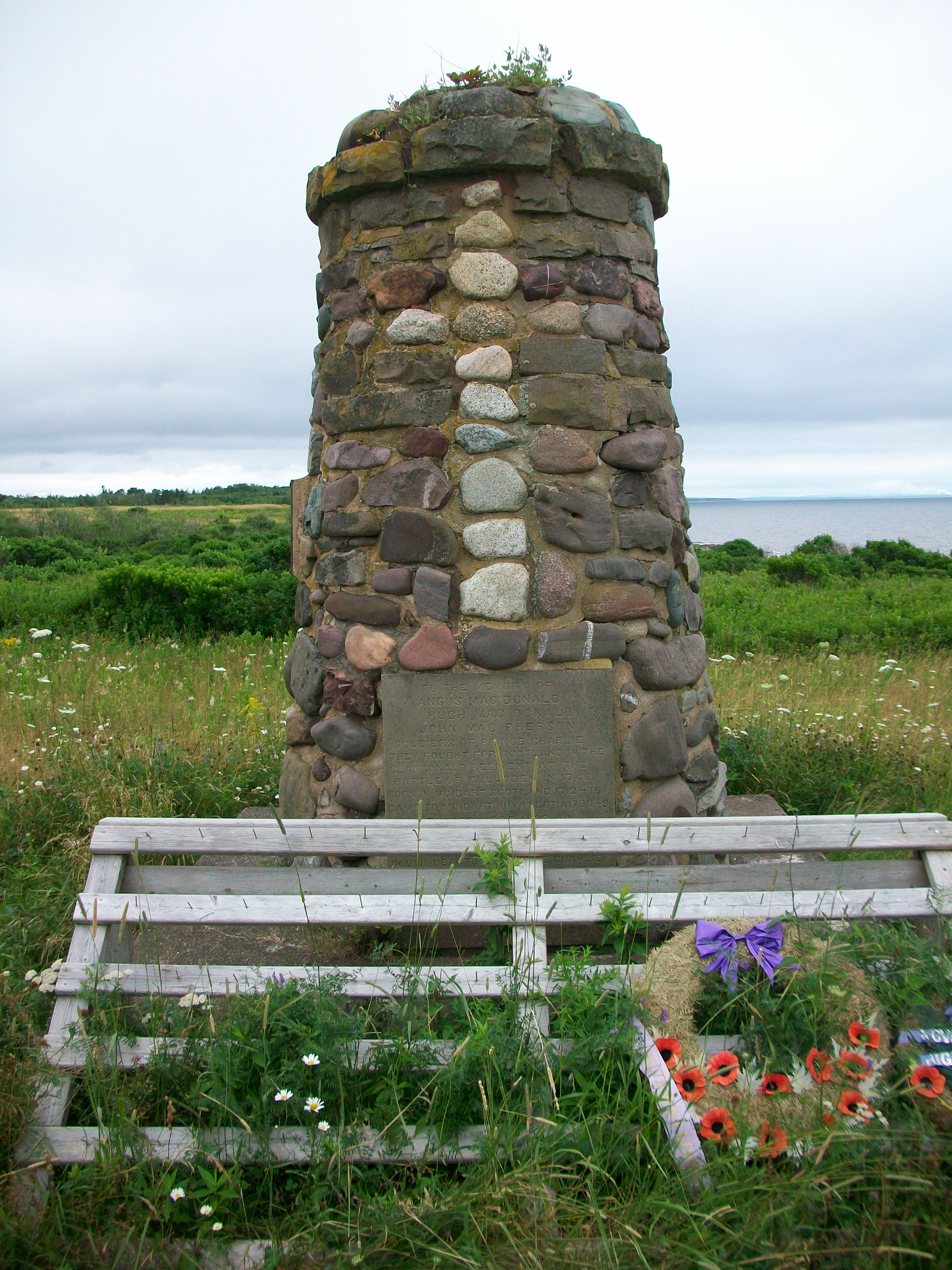 The front facing of the Culloden Cairn at Knoydart, Nova Scotia. Knoydart